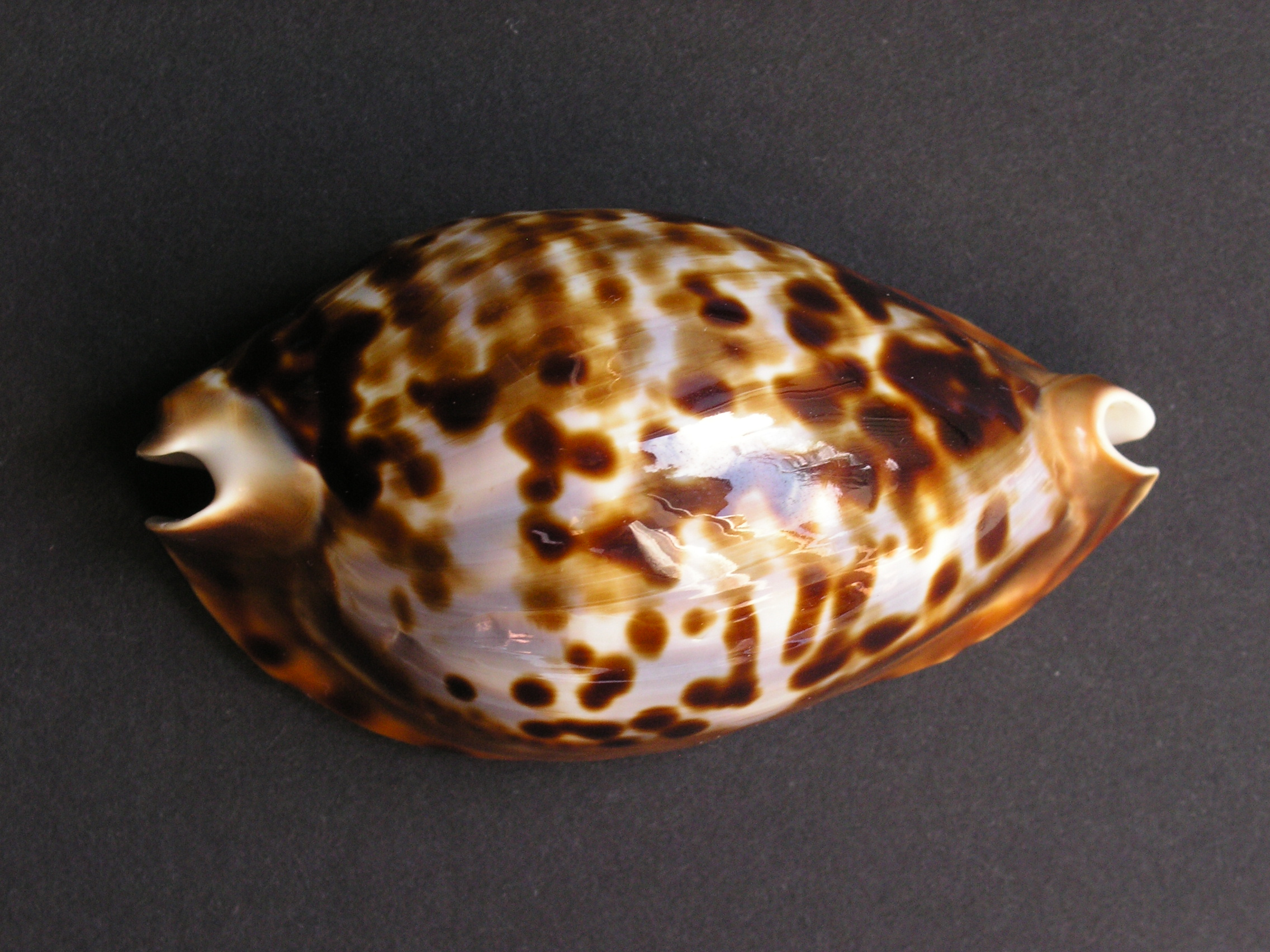 Zoila friendii (synonym : Cypraea friendii) Licence: self-made photo, May 2005